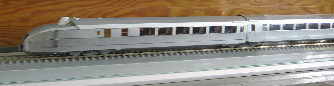 Scale model of Kruckenberg´s SVT 137 155 in Transport museum Dresden